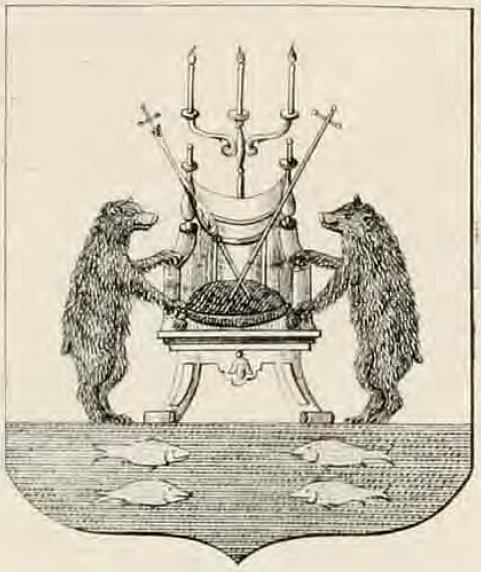 Coat of Arms of Novgorod